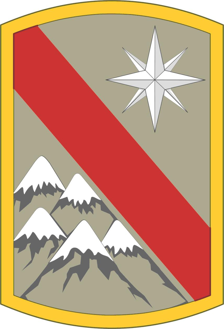 Shoulder Sleeve Insignia of the US Army 43rd Sustainment Brigade from